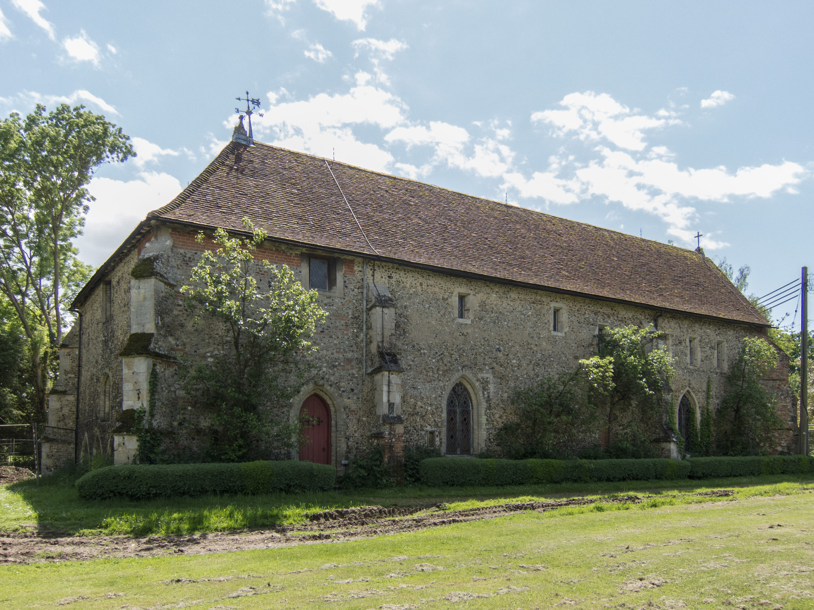 Clare Priory